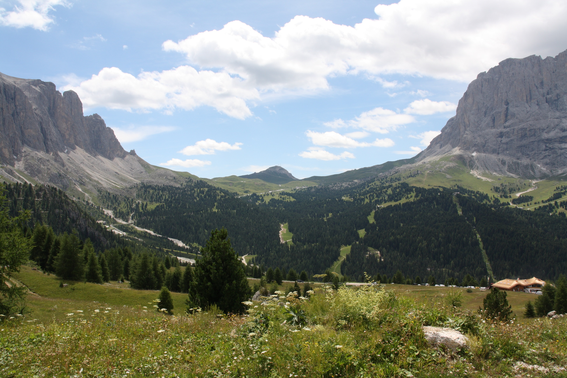 Sella Pass (Italian:Passo Sella; Ladin: Jëuf de Sela / Jouf de Sela